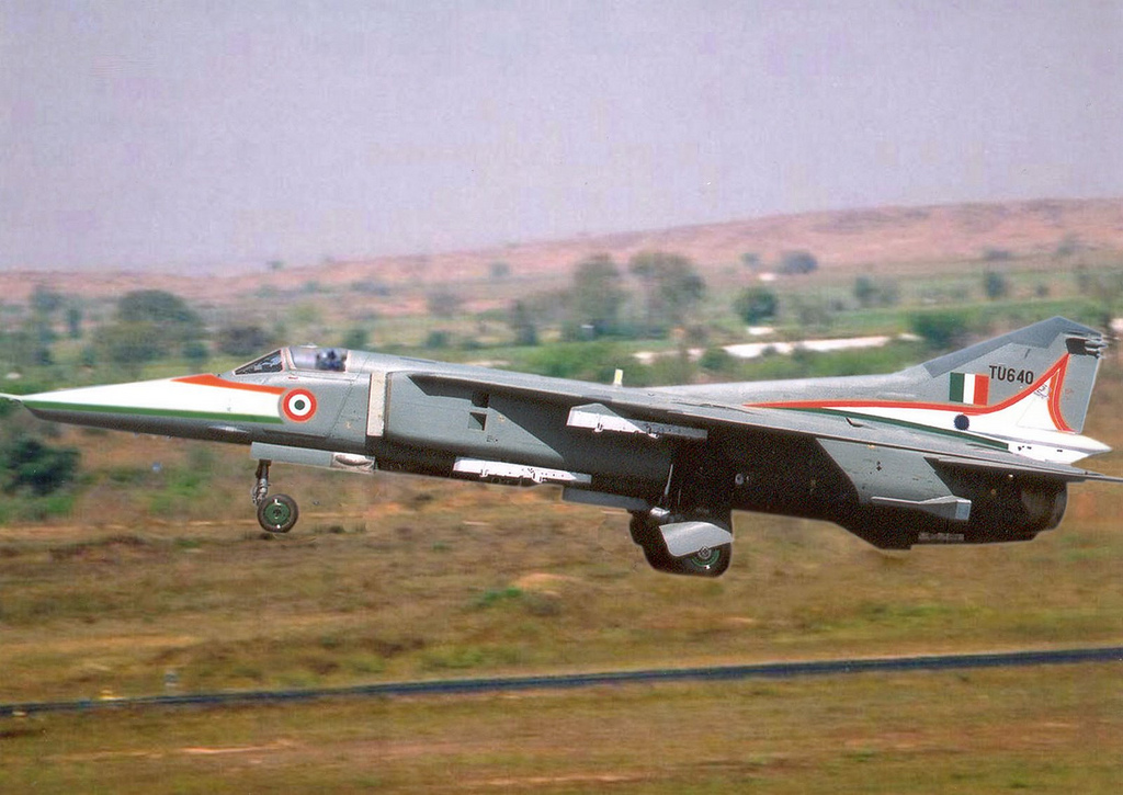 MiG-27 at Indian Air force Base camp.Upgraded